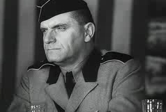 German American Bund Rally: Bund leader Fritz Kuhn. Still from "March of Time" -outtakes - Story RG-60.0699, Tape 316